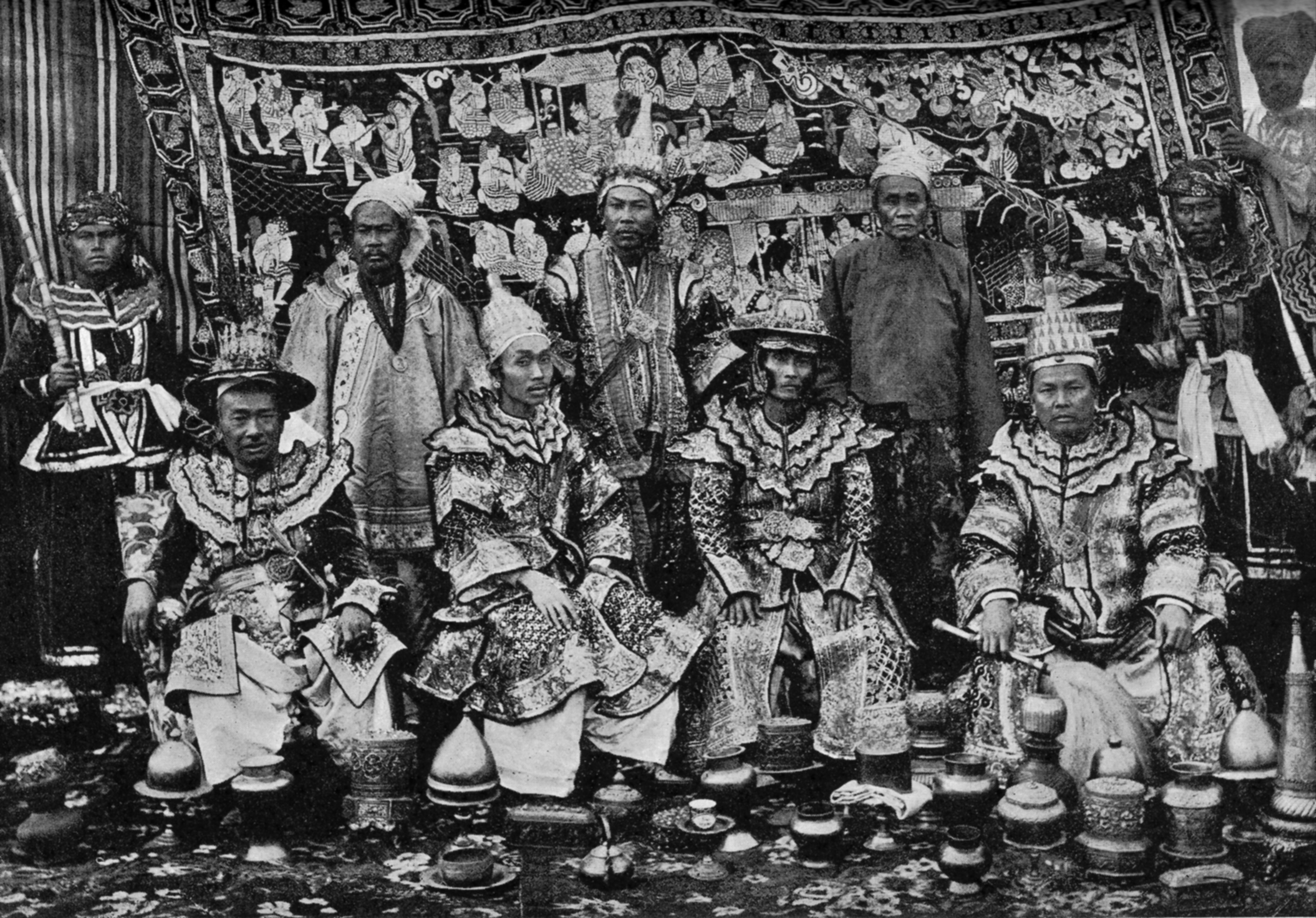 Photograph of Shan and Karen princes at Delhi Durbar 1903. Back row: Karen princes of Bawlakè, Gantarawadi and Kyebogyi. Front row: Shan princes of Mongpawn, Kengtung, Möngnai and Yawnghwe.